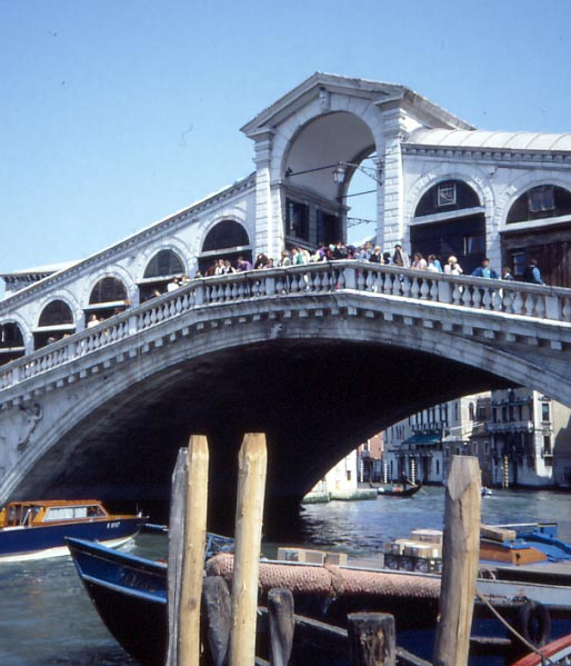 Rialto bridge in Venice in Italy